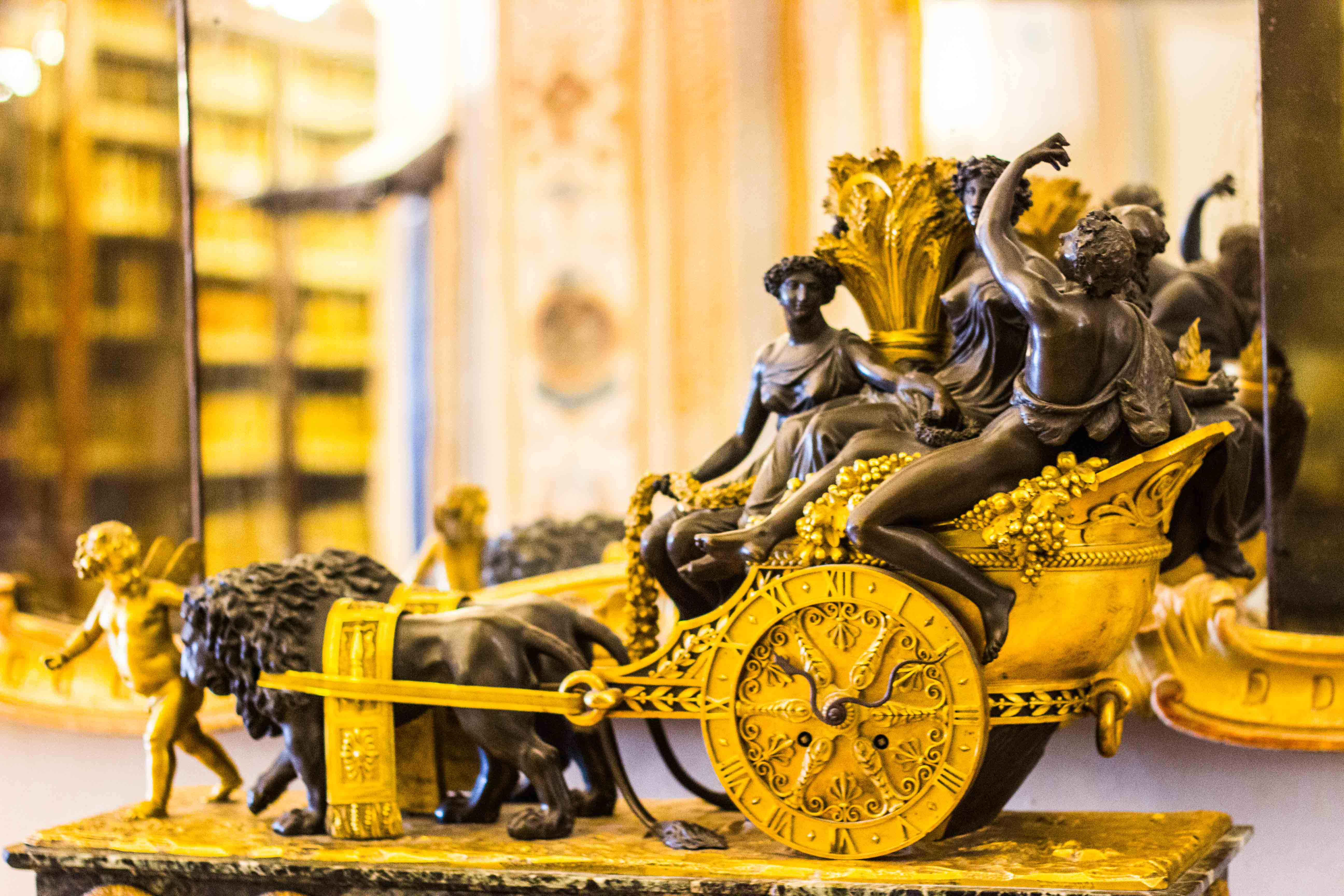 mozzi borgetti